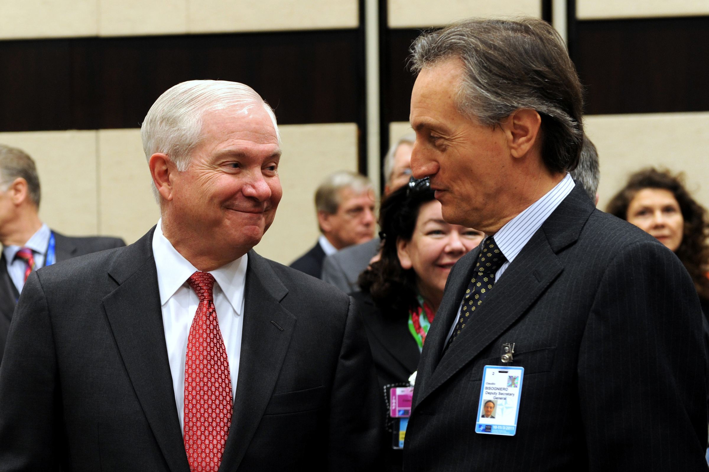 Secretary of Defense Robert M. Gates speaks with NATO Deputy Secretary General Claudio Bisogniero at the NATO headquarters in Brussels, Belgium, on March 11, 2011. Gates is in Belgium to attend NATO Defense Ministers meetings.